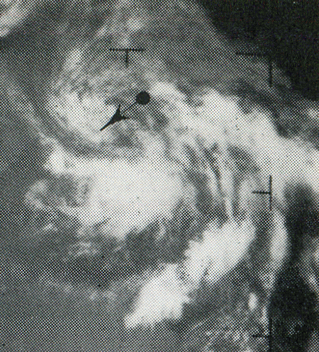 This weather satellite image of Tropical Depression Fern was taken on September 6, 1971